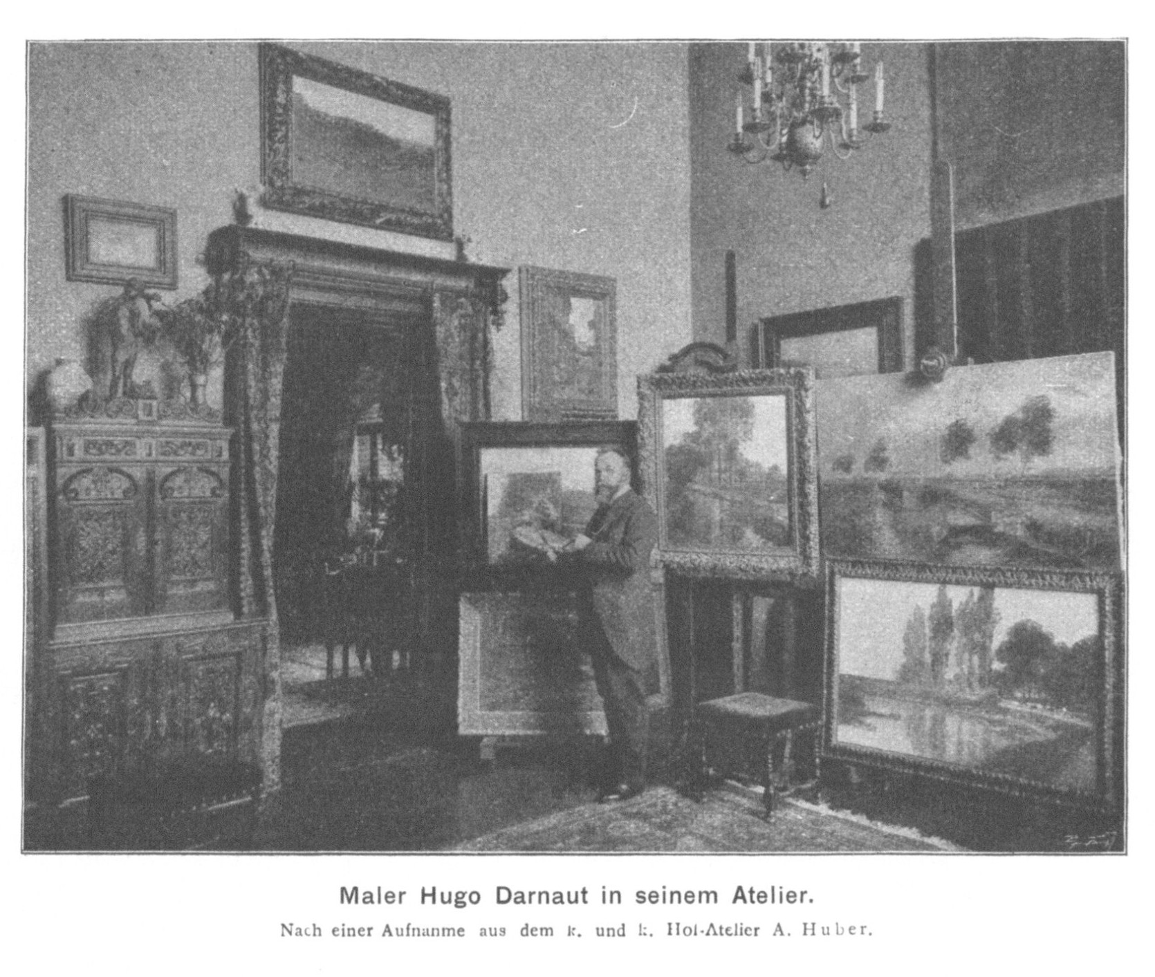 Photograph of Hugo Darnaut (1851-1937), Austrian painter, in his studio.